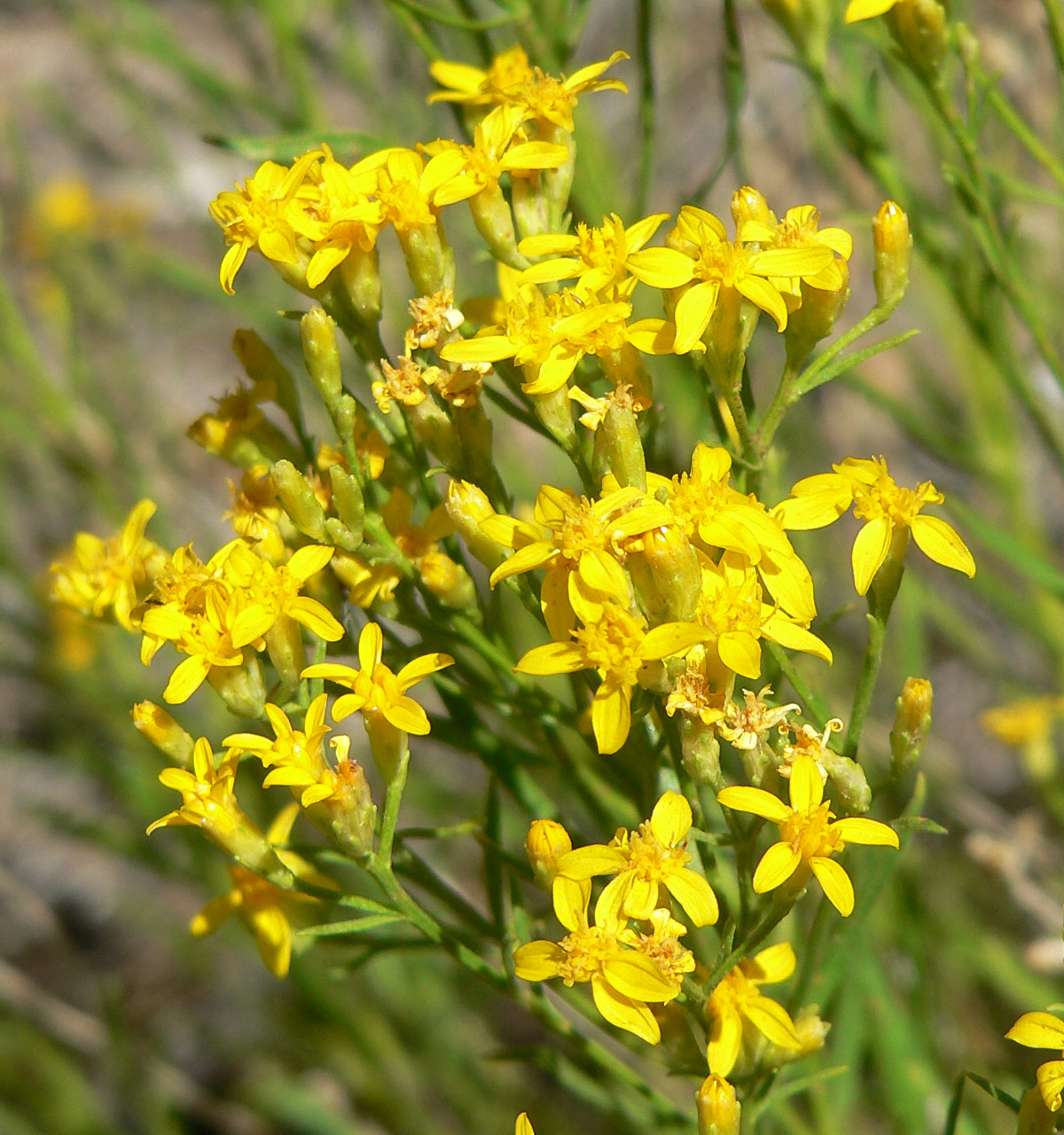 Gutierrezia sarothrae in Rainbow Canyon just above the Rainbow Subdivision, Kyle Canyon, Spring Mountains, southern Nevada (elev. about 2300 m)